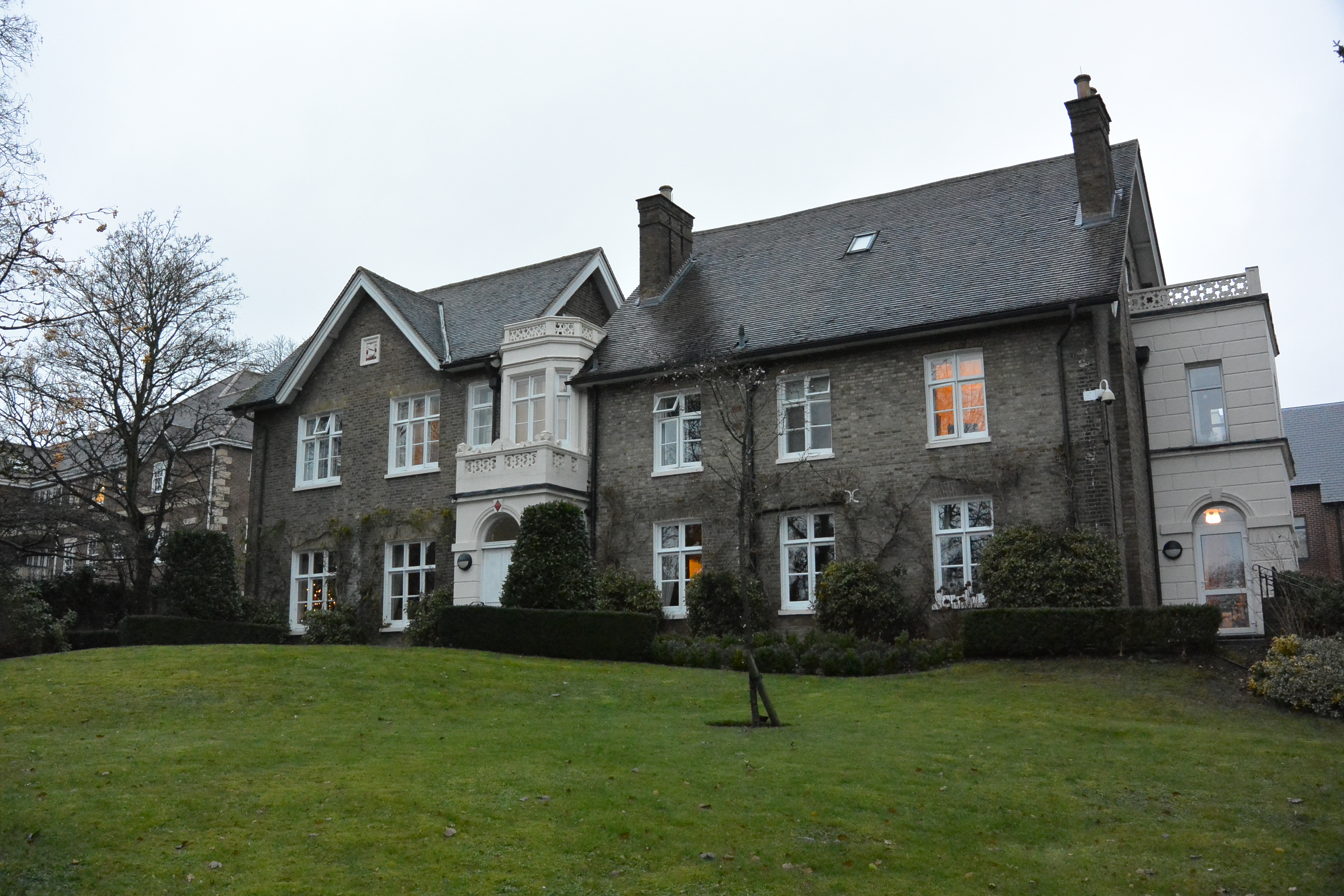 Denville Hall, owned by the Actors Charitable Trust.